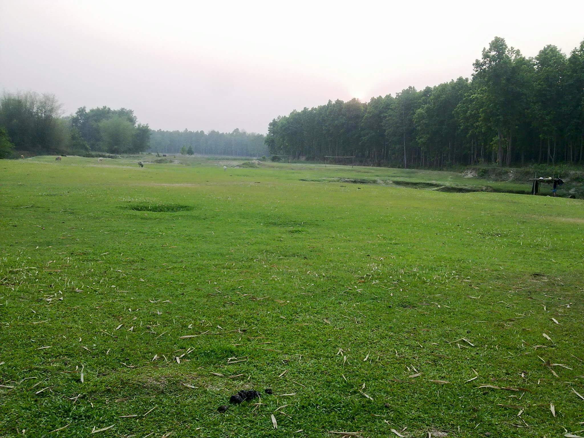 Bird's-eye view of Sehara-Field and Ramdhuni Forest.